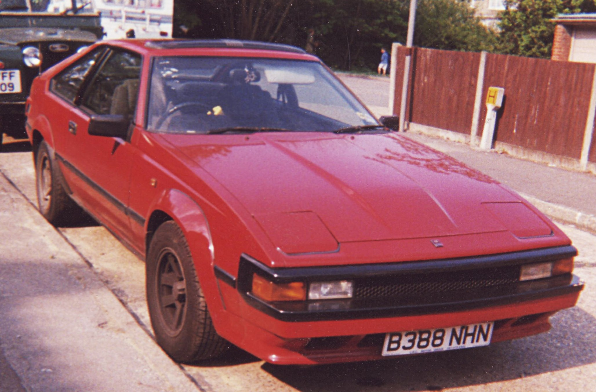 Photo taken c. 1998 by L. Collard.